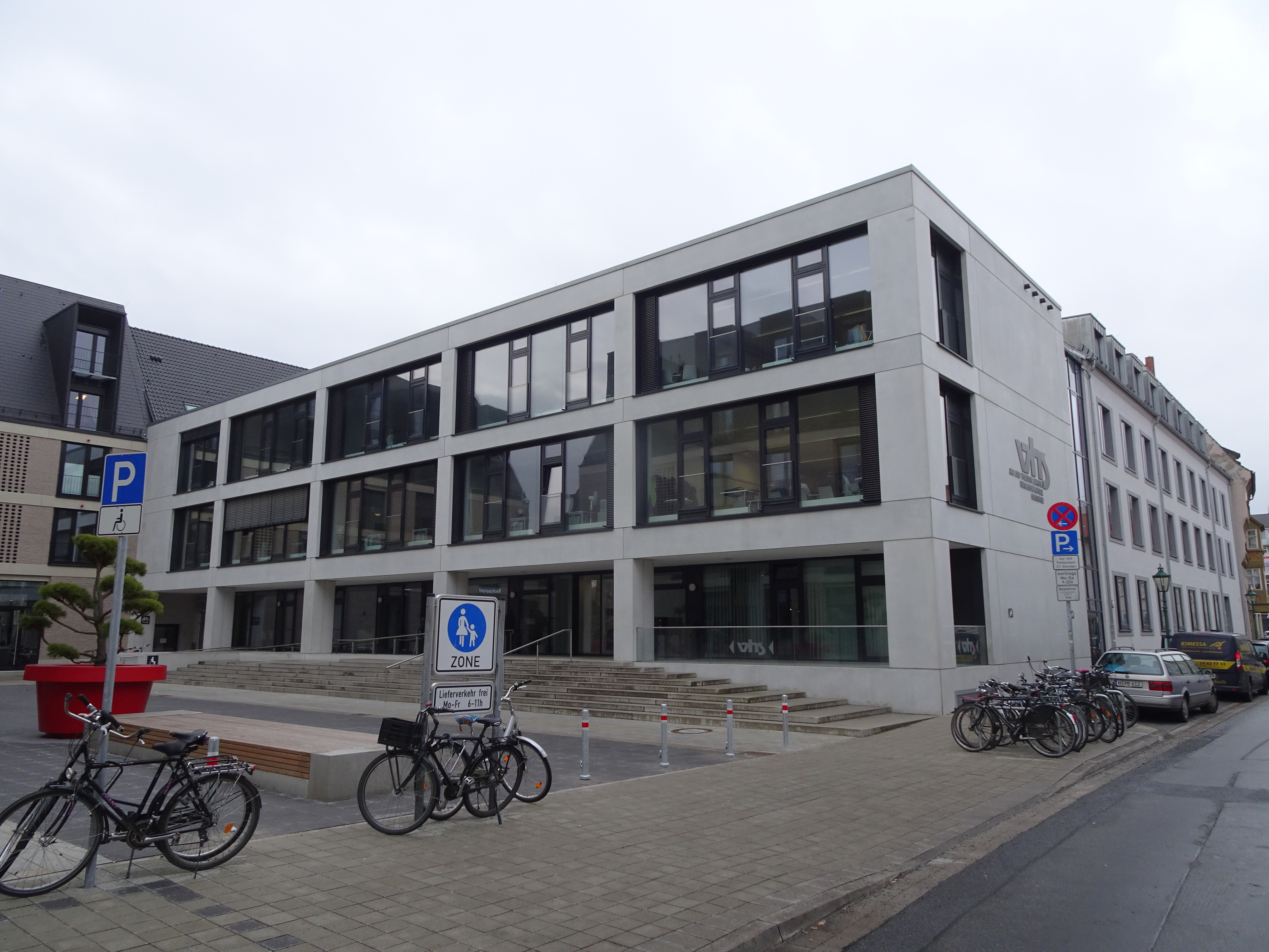 building in Hannover, Germany